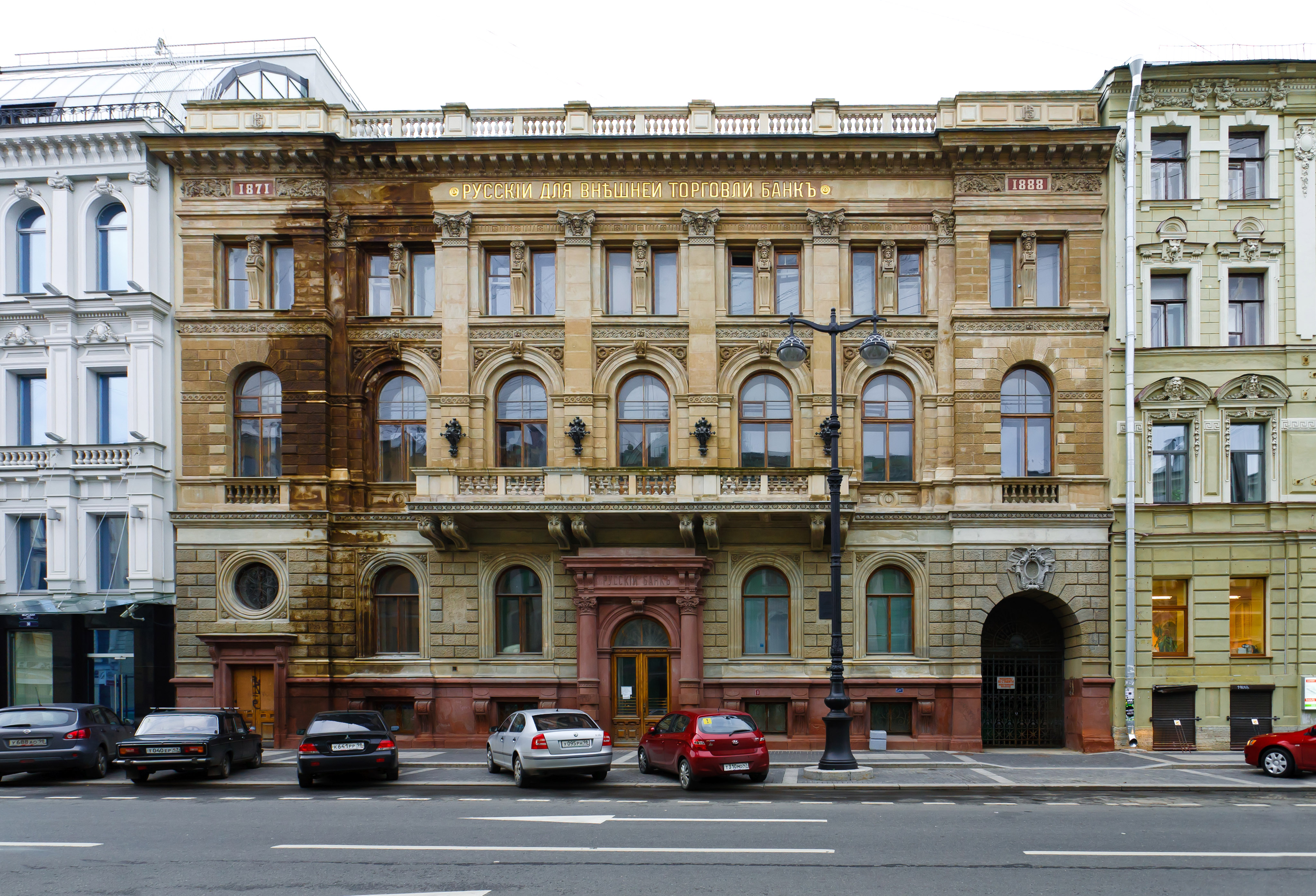 bank for the foreign traiding "Russian"